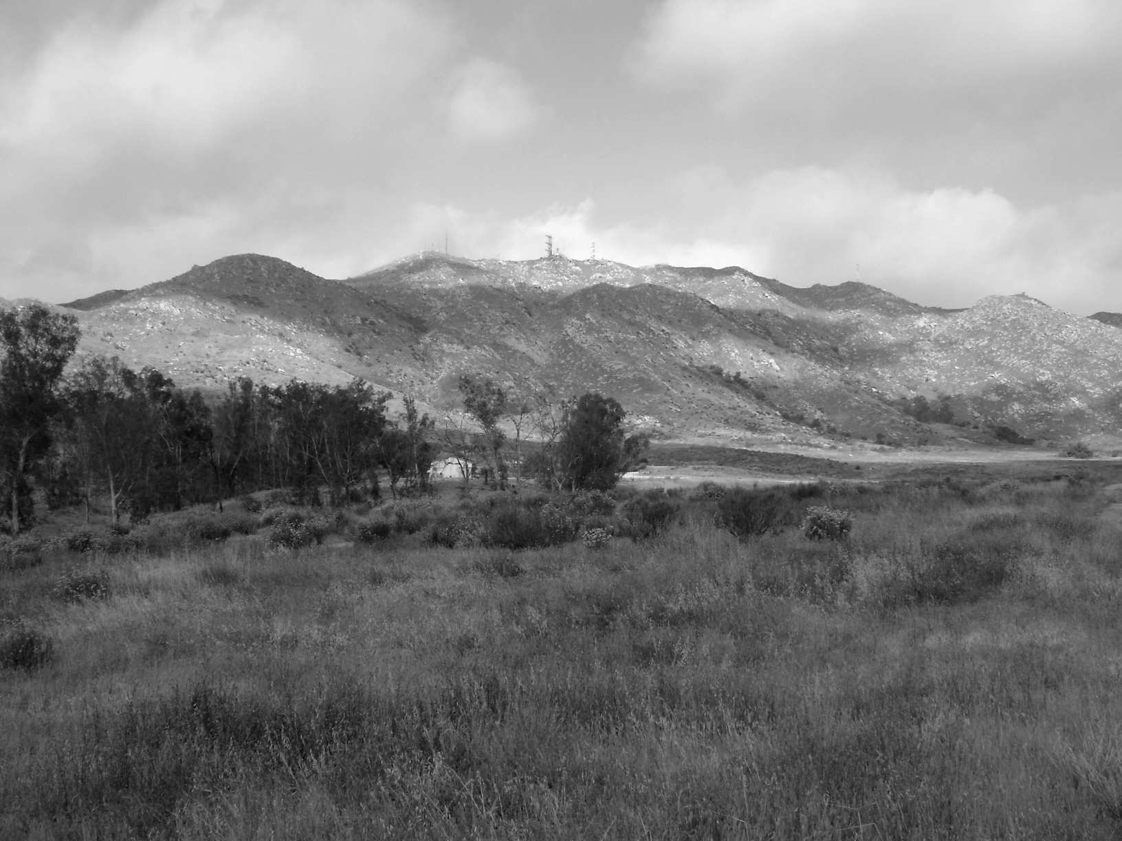 Box Springs Mountains — view of the Box Springs Reserve of the University of California, Riverside. A unit of the University of California Natural Reserve System, operated by and located above UC Riverside in the Riverside—Moreno Valley area, Riverside County, California.